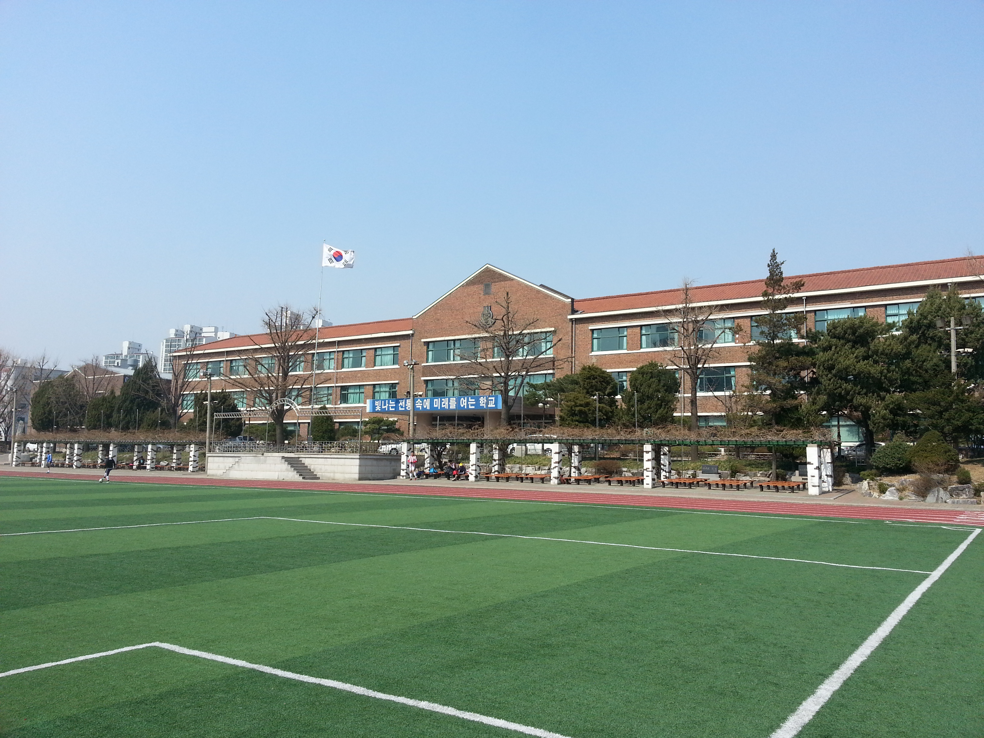 Main Building of Seoul Technical High School